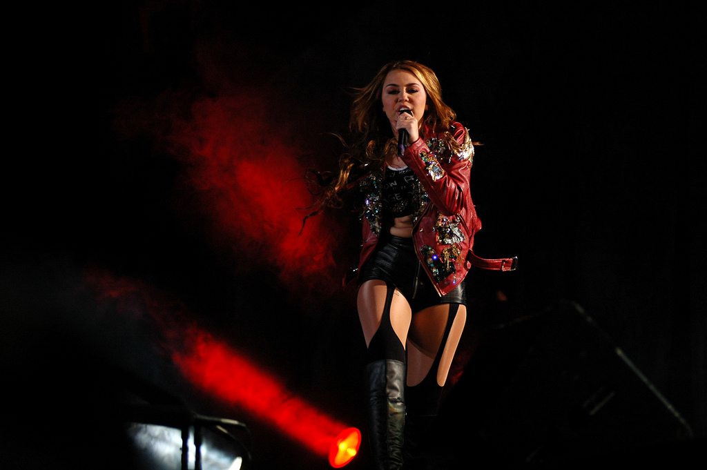 Pop singer Miley Cyrus performing during her stop in Santiago, Chile during the 2011 Gypsy Heart Tour.